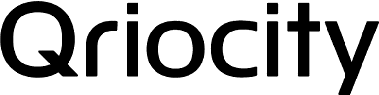 text logo of Sony Qriocity